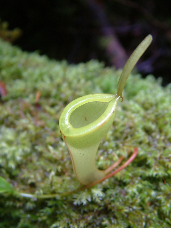 Nepenthes dubia growing at ~1,600 m asl